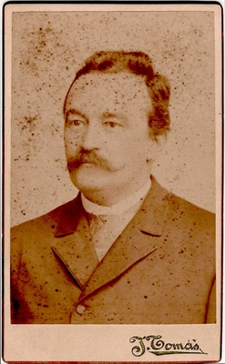 Portrait of Karel Cumpfe (1853-1931), Czech high school teacher, classical philologist and author of articles on ancient Greece and Rome